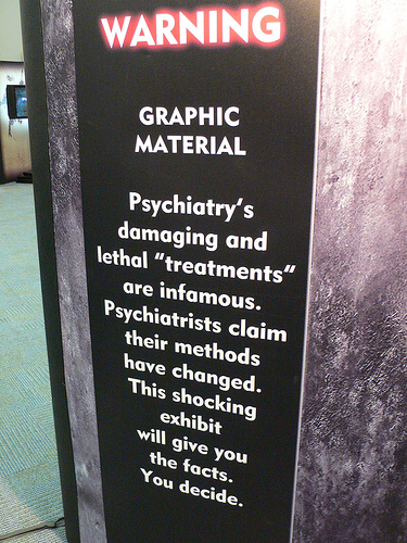 Display panel from the Psychiatry: An Industry of Death museum at Worldcon 2006, Anaheim, California